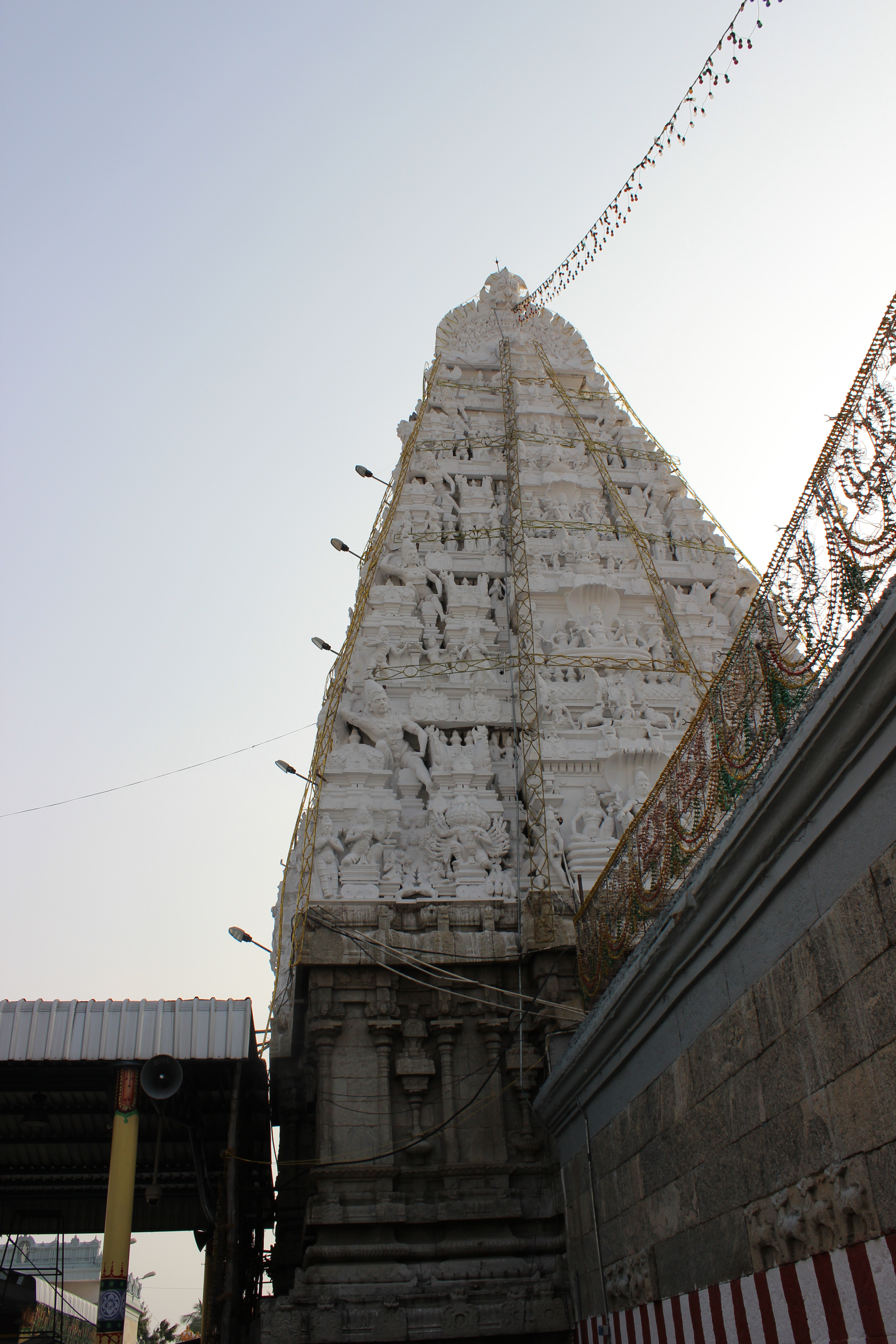 Thiruchanur